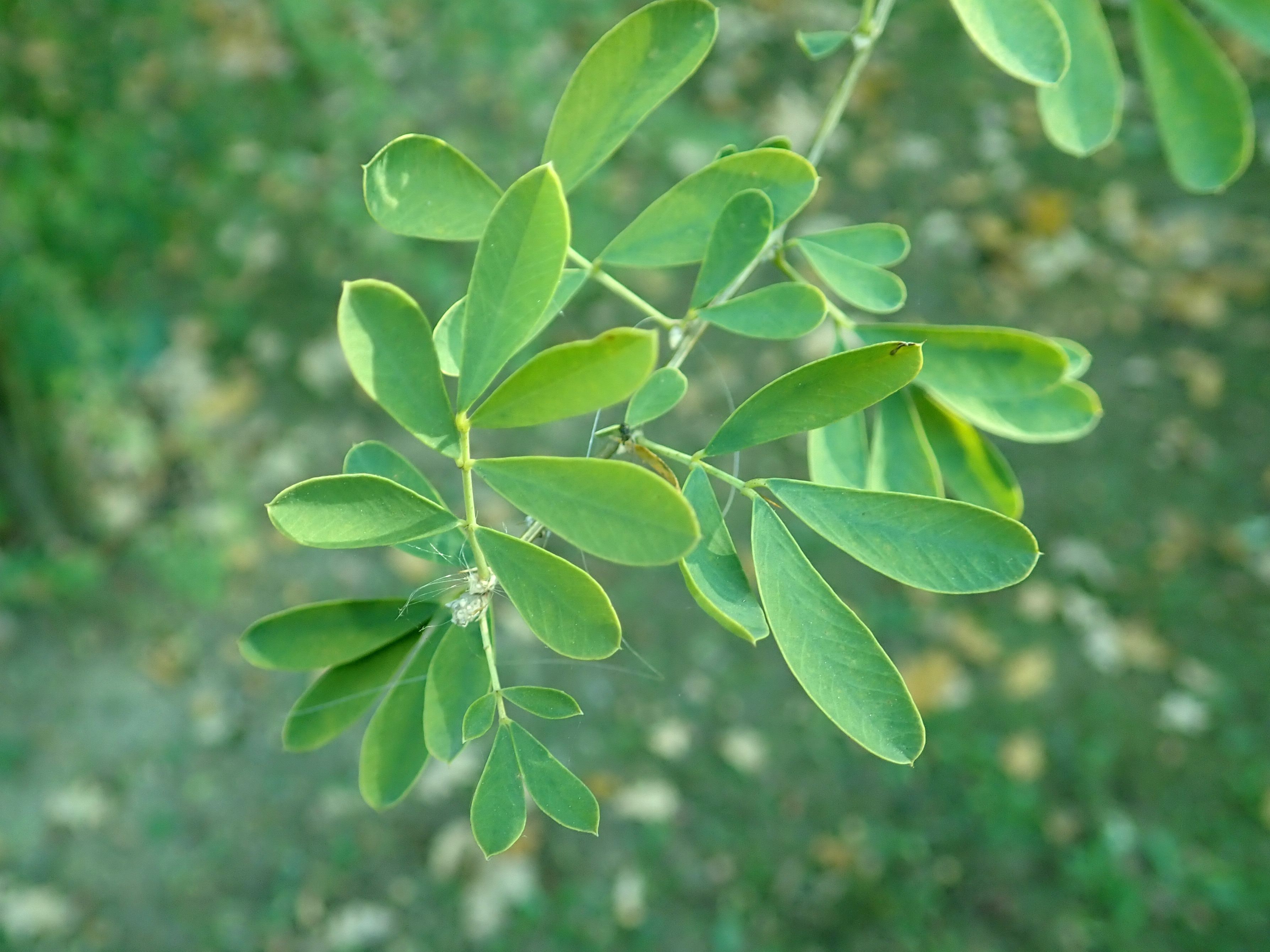 Halimodendron halodendron, arboretum in Glinna, Poland.